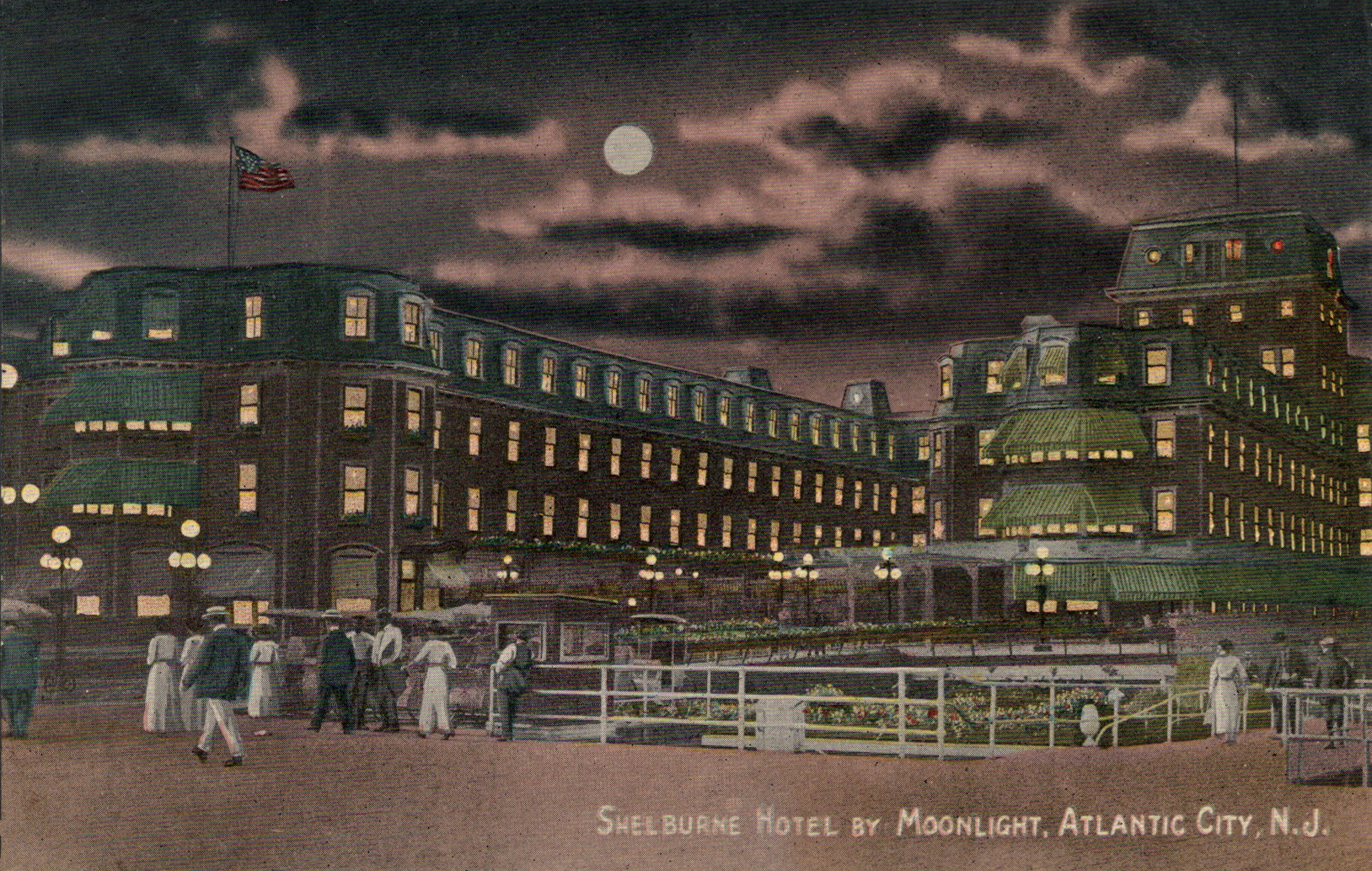 Glossy photochrome postcard of the Shelburne Hotel, Atlantic City, with divided back, published by The Post Card Distributing Co.